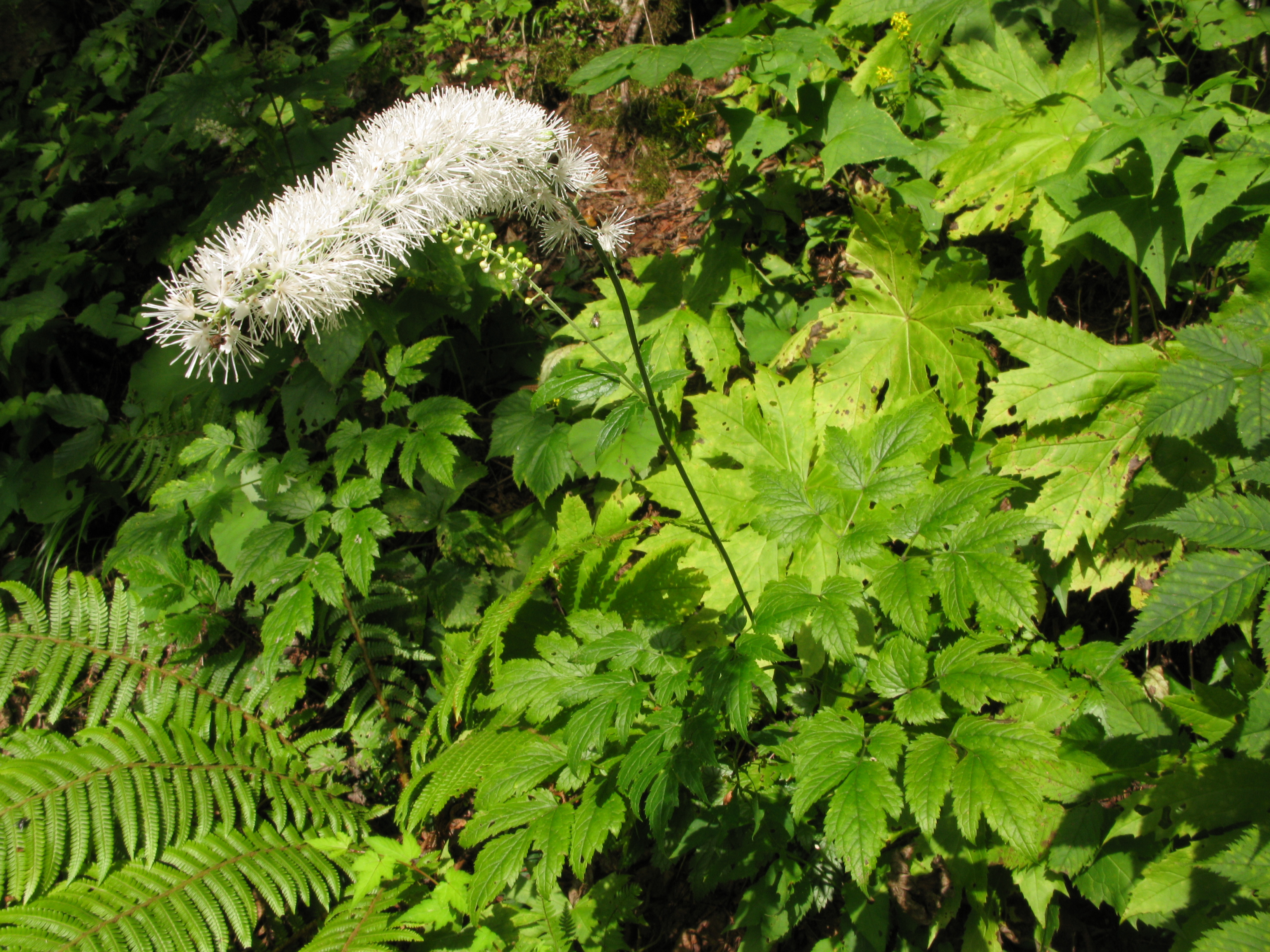 Cimicifuga simplex, Aizu area, Fukushima pref., Japan